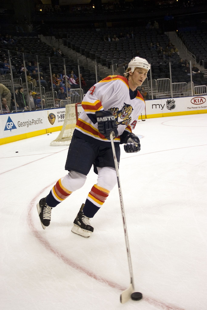 Jay Bouwmeester, ice hockey player for the Florida Panthers